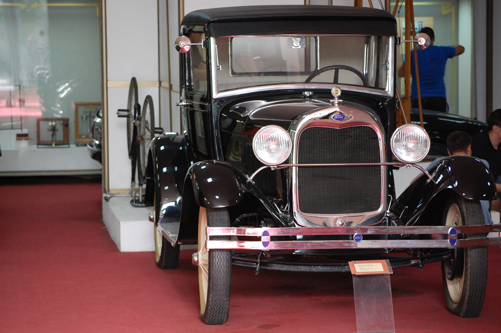 National polytechnic museum - Sofia, Bulgaria